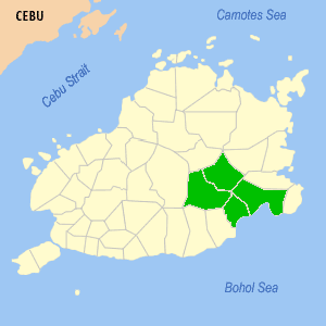 locator map of Eskaya, the collective name for the members of a cultural minority found in Bohol, Philippines. Original by User:TheCoffee